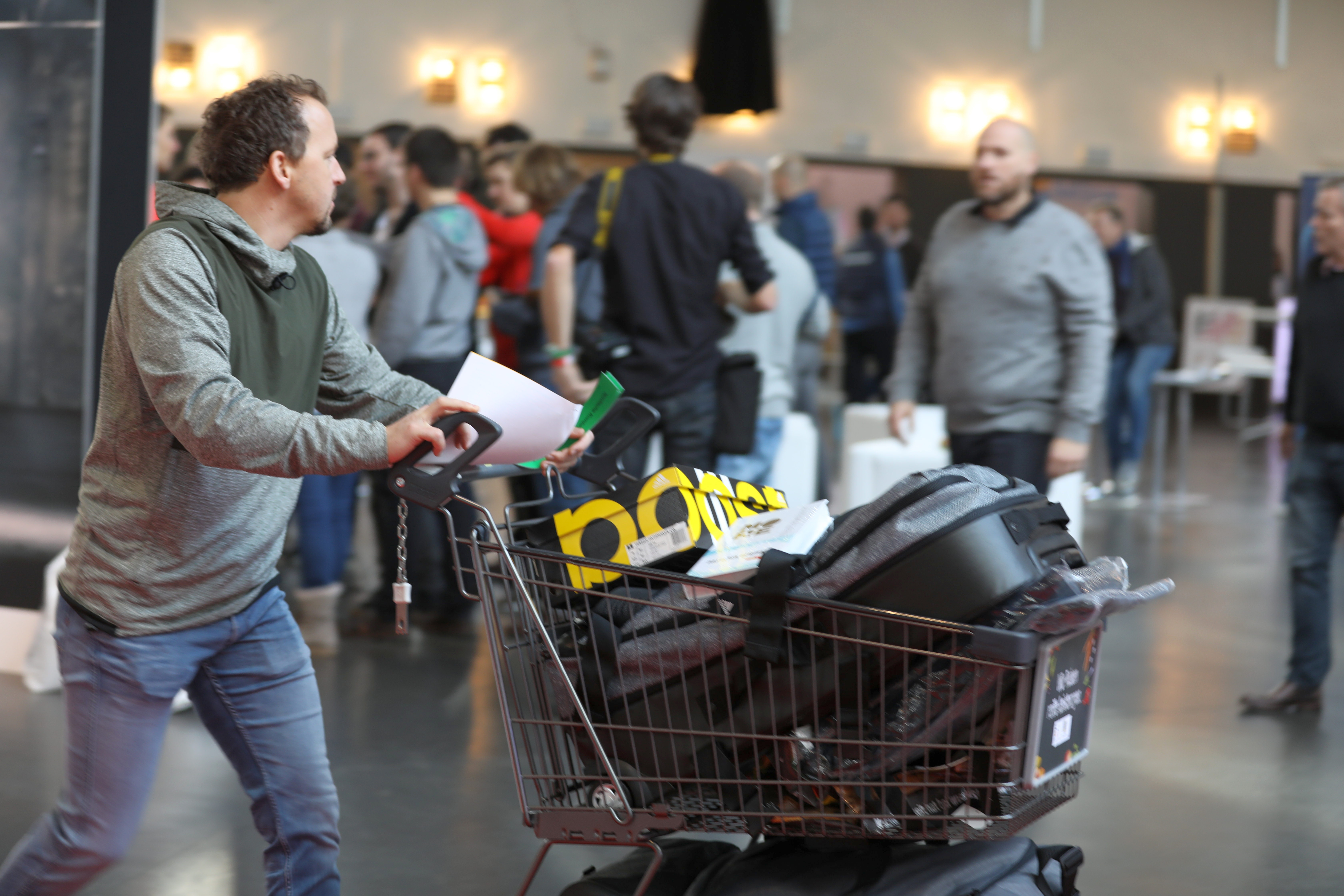 Investiture of the German team for Winter Olympics 2018 in Pyeonchang: Einkleidung des deutschen Teams der Olympischen Winterspiele 2018 This photo was taken during the project at the investiture of the German team for the 2018 Winter Olympics at January 2018 in Munich. The making of this file was supported by the German Olympic Sports Confederation. The making of this document was supported by the Community-Budget of Wikimedia Germany. Personality rights warningAlthough this work is freely licensed or in the public domain, the person(s) shown may have rights that legally restrict certain re-uses unless those depicted consent to such uses. In these cases, a model release or other evidence of consent could protect you from infringement claims.